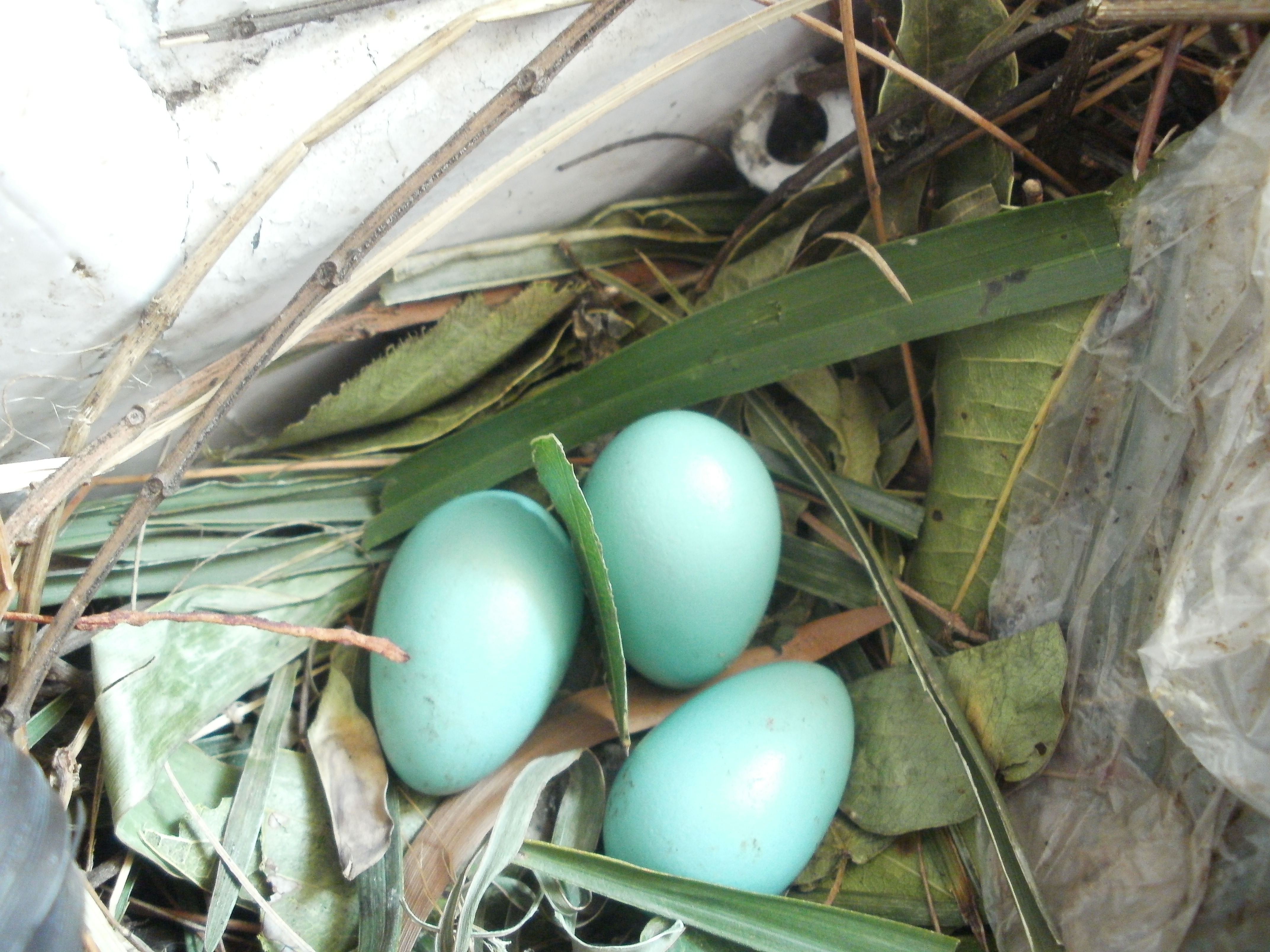 Common Myna's nest and eggs in a window at the top floor of a three-story building in Kolkata, India (May 22, 2012)